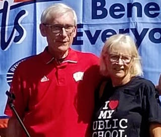 Kathy Evers with her husband Tony Evers at a WEAC-sponsored election rally